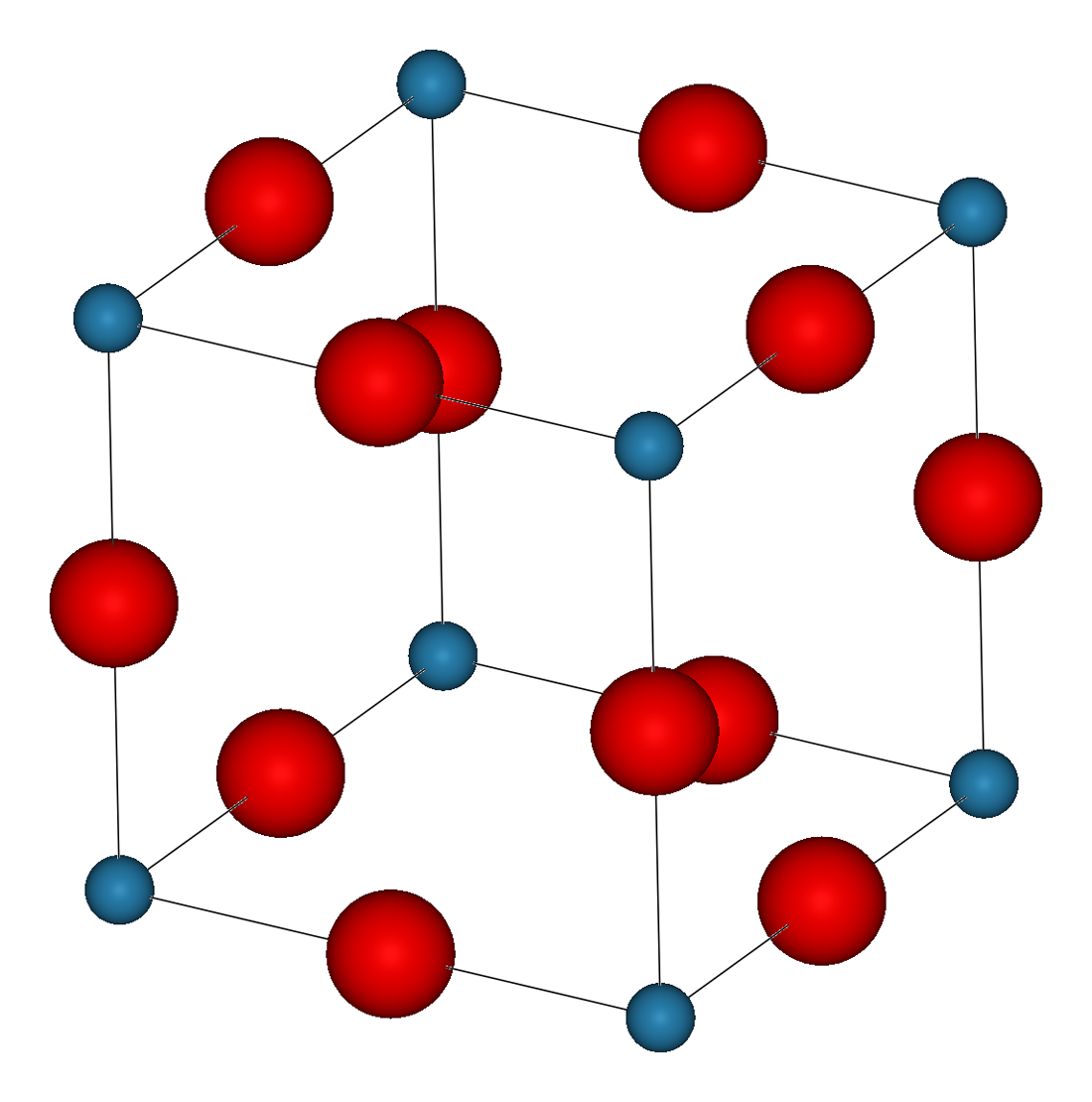 Scaled ball-and-stick model of the unit cell of rhenium trioxide, ReO3